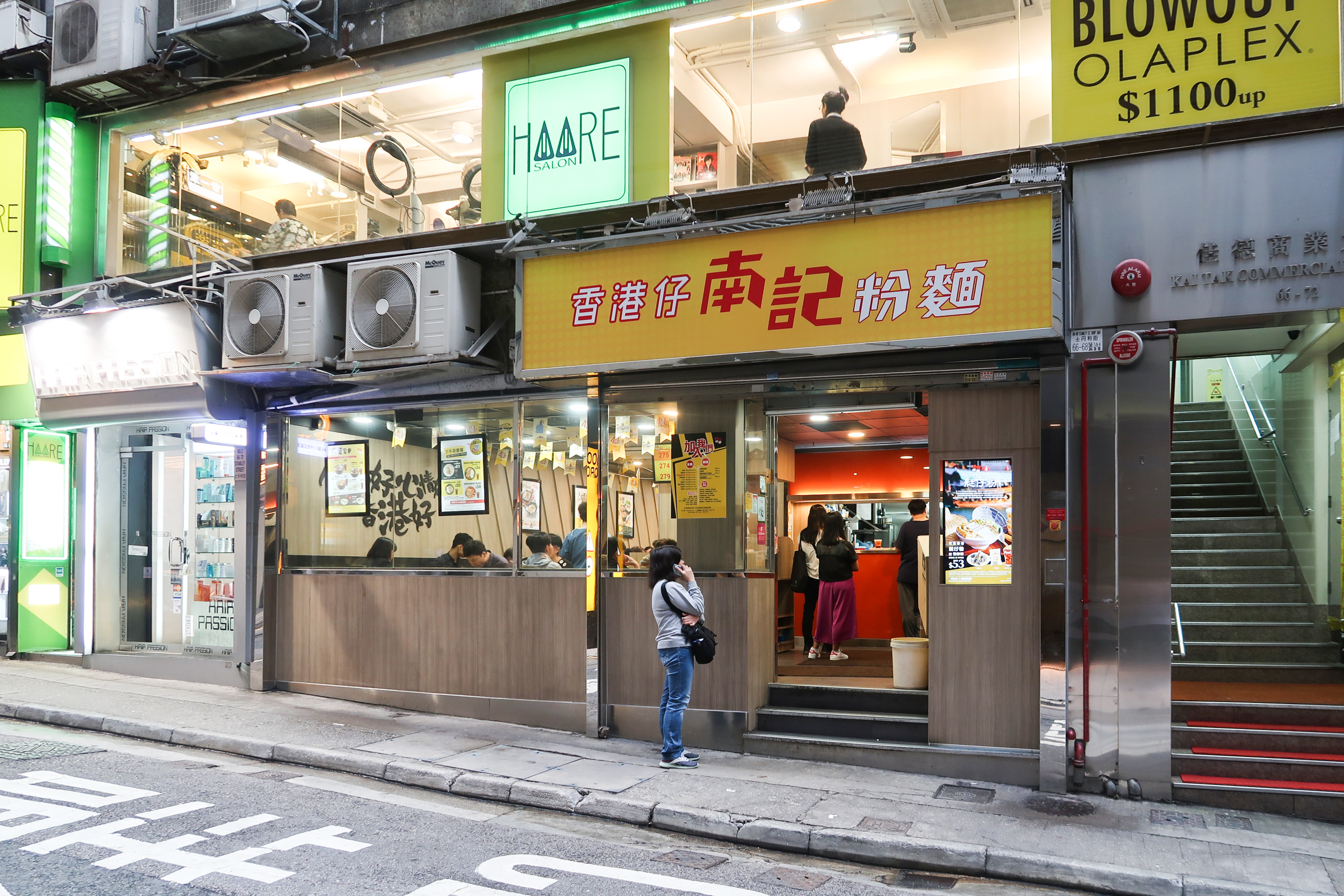 Nam Kee Spring Roll Noodle Co in Central